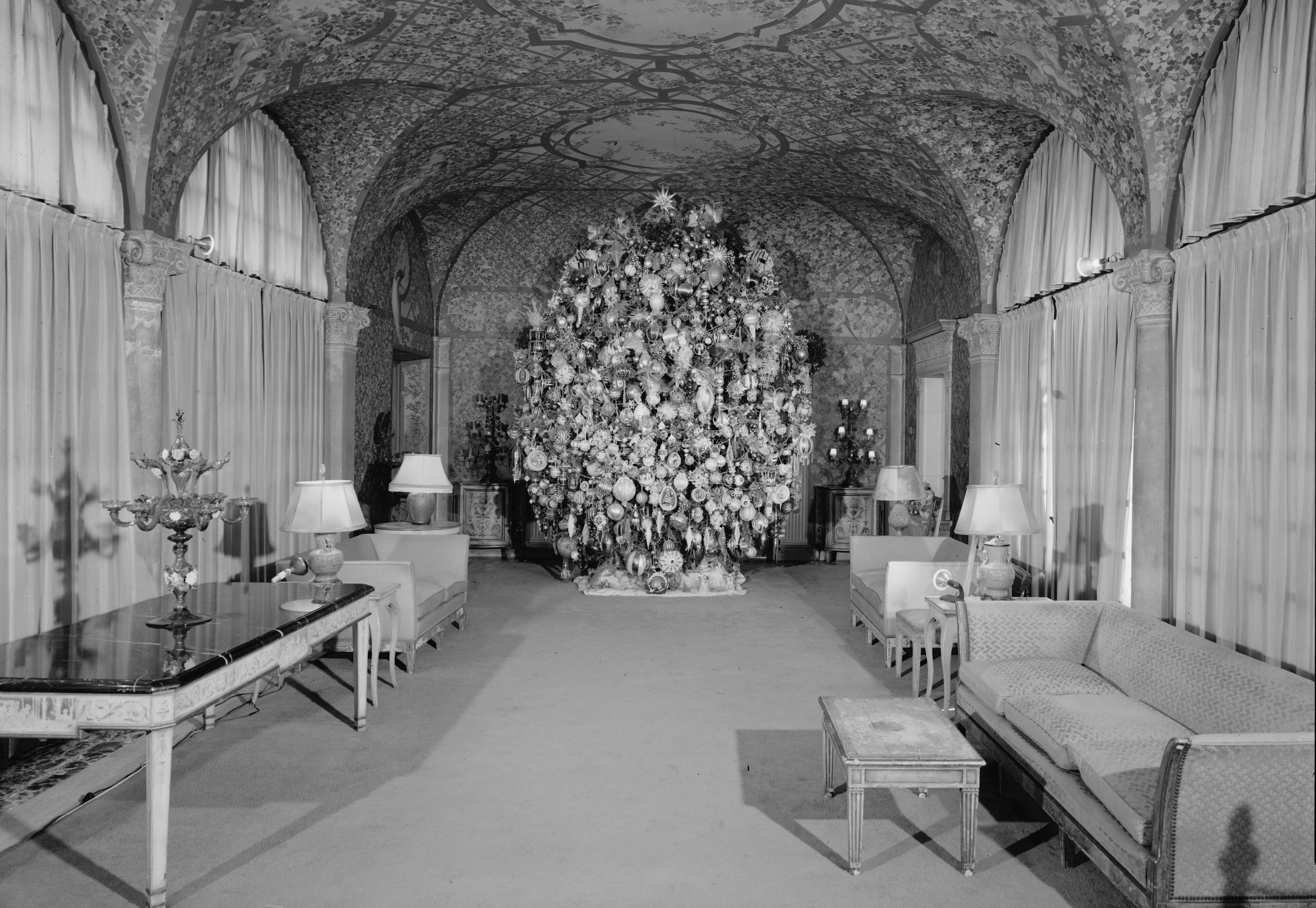 Christmas Tree (permanent) at the Harold Lloyd estate (aka Green Acres) in Beverly Hills, CA. Photo taken by Jack Boucher in 1974 before the estate was divided up and renovated.